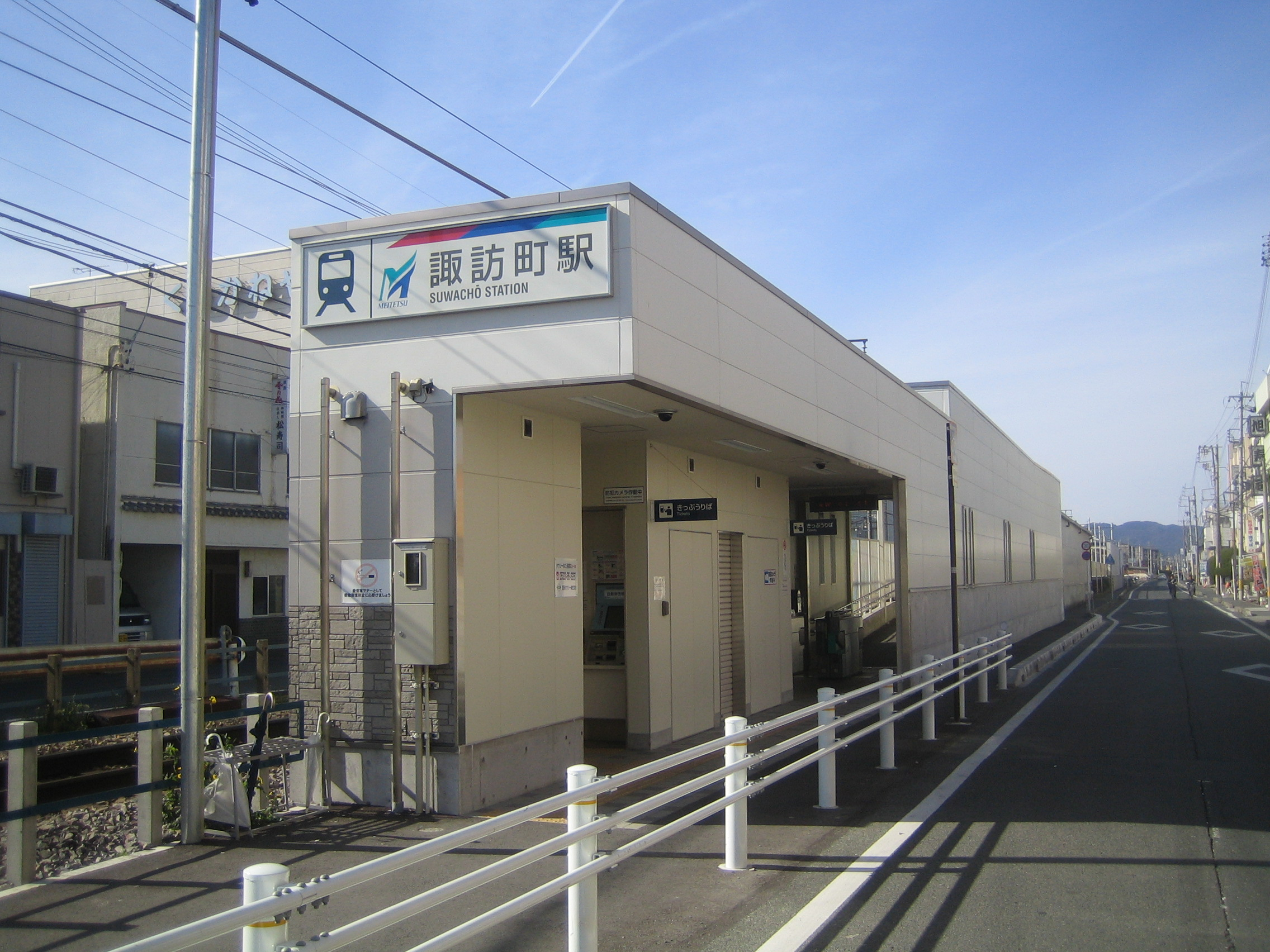 Suwacho Station (諏訪町駅 Suwachō-Eki), located at Suwa, Toyokawa, Aichi, Japan